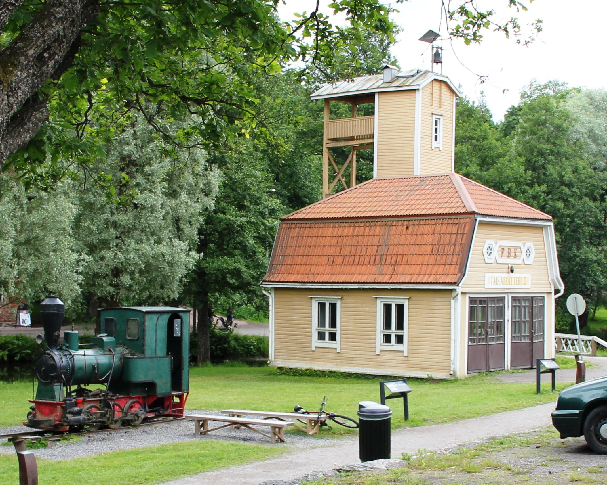 Fire station and Ram-locomotive in Fiskars, Pohja, Raseborg, Finland